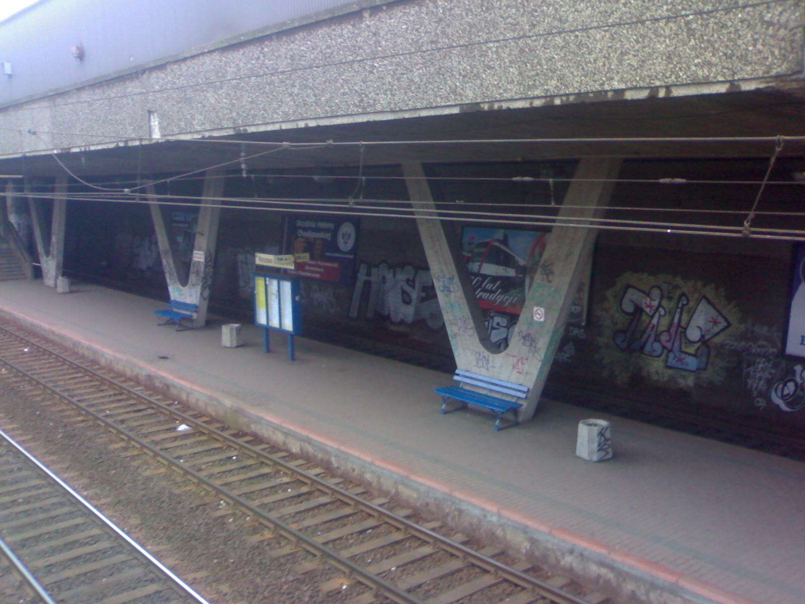 Warsaw Ochota commuter train stop. A train stop named Warszawa Ochota WKD owned by Warsaw Commuter Rail (WKD).